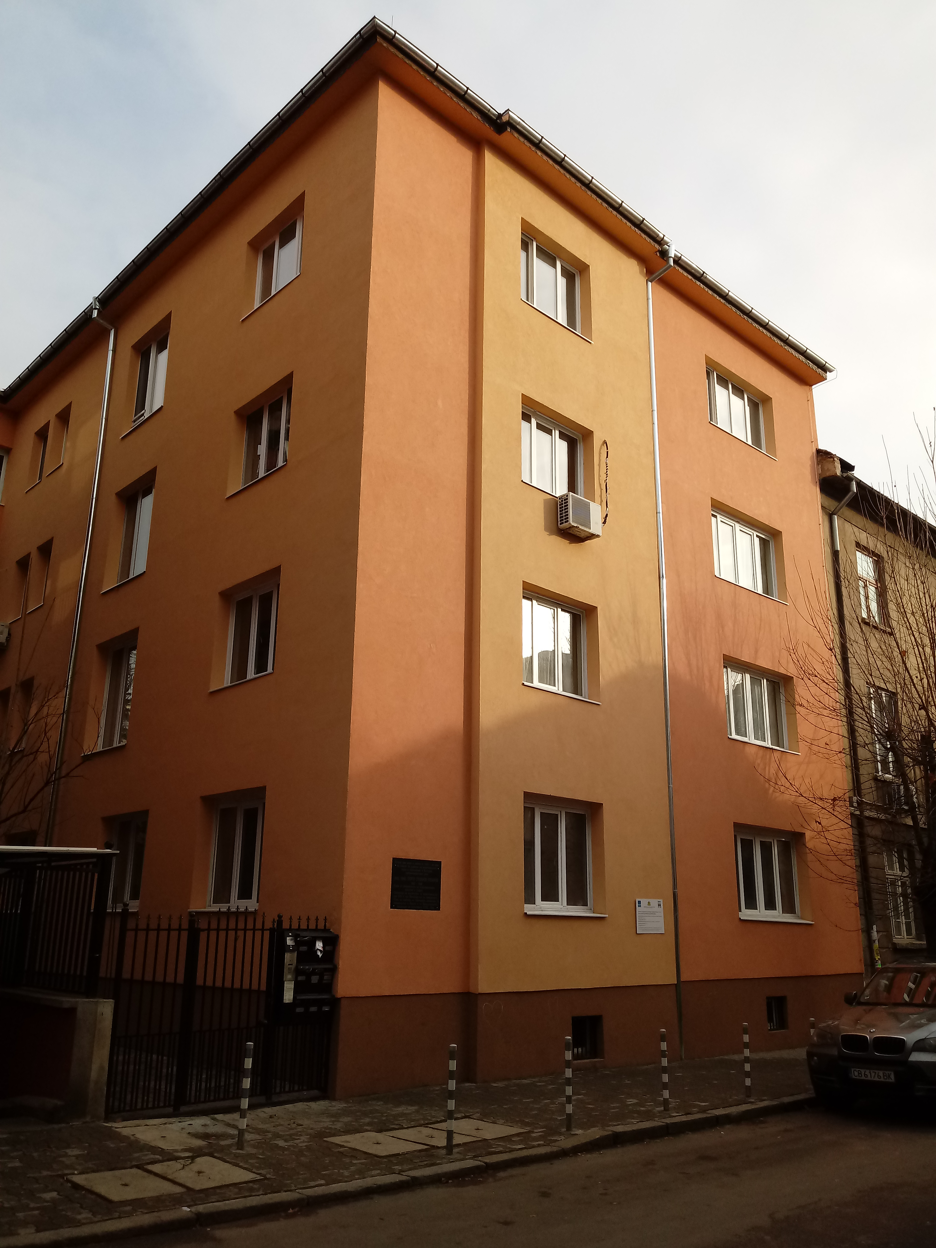 Georgi Hlebarov home with memorial plaque, 7 Angelo Roncalli Str. Sofia